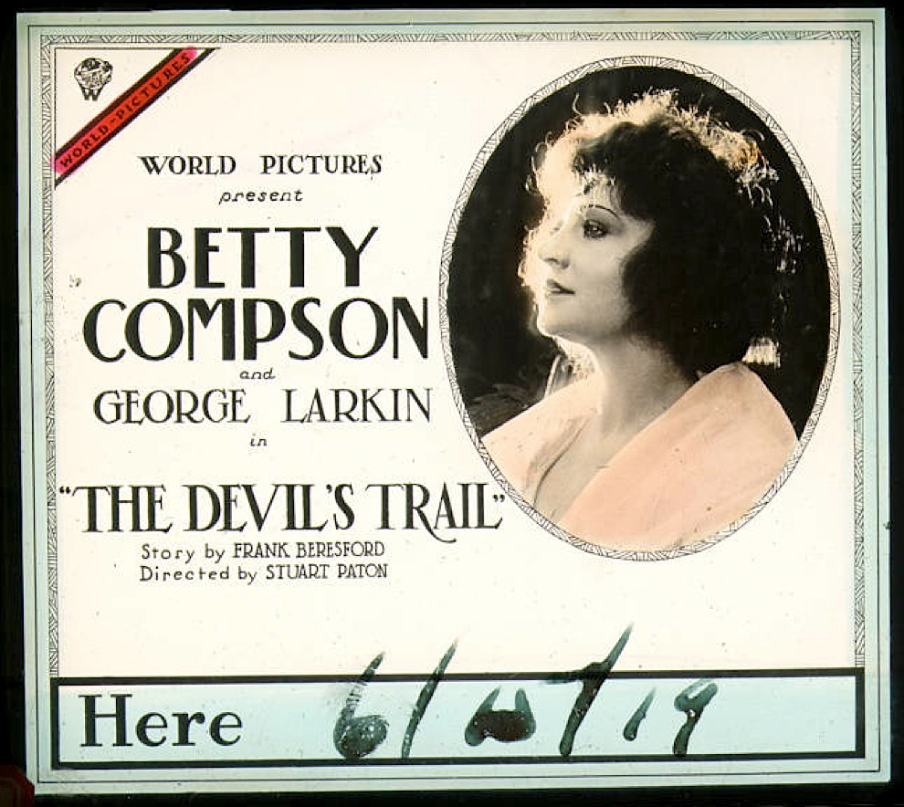 The Devil's Trail is a lost 1919 silent film story of the Northwoods. This is a lantern slide for the film.